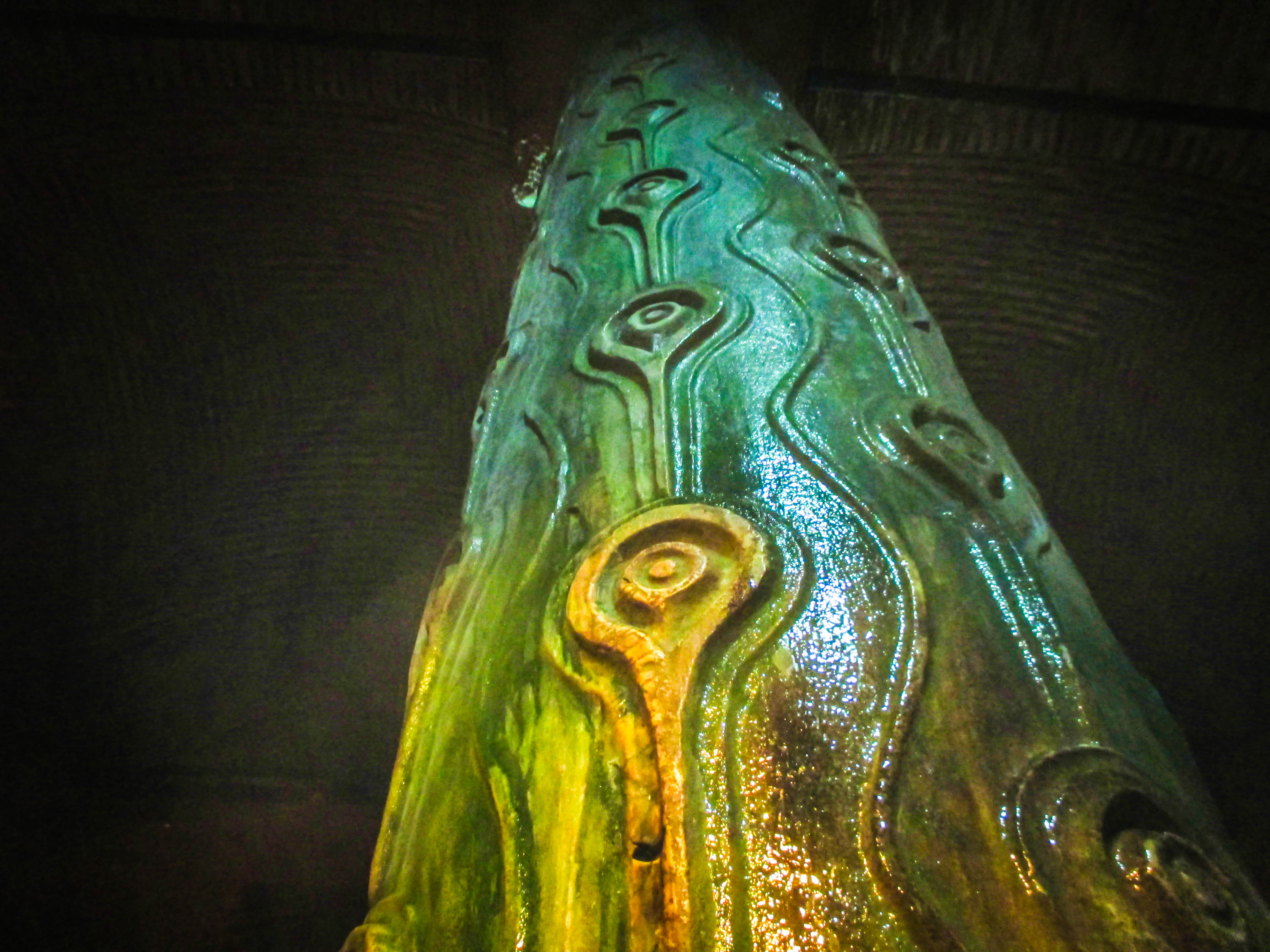 The "peacock-eyed column" in the Basilica Cistern in Istanbul, Turkey, on January 20, 2014. Taken by Matt Popovich and released under a CC-BY-3.0 license.